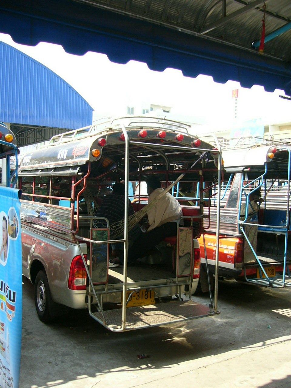 Small Songthaew, seen in Sakon Nakhon, Thailand.